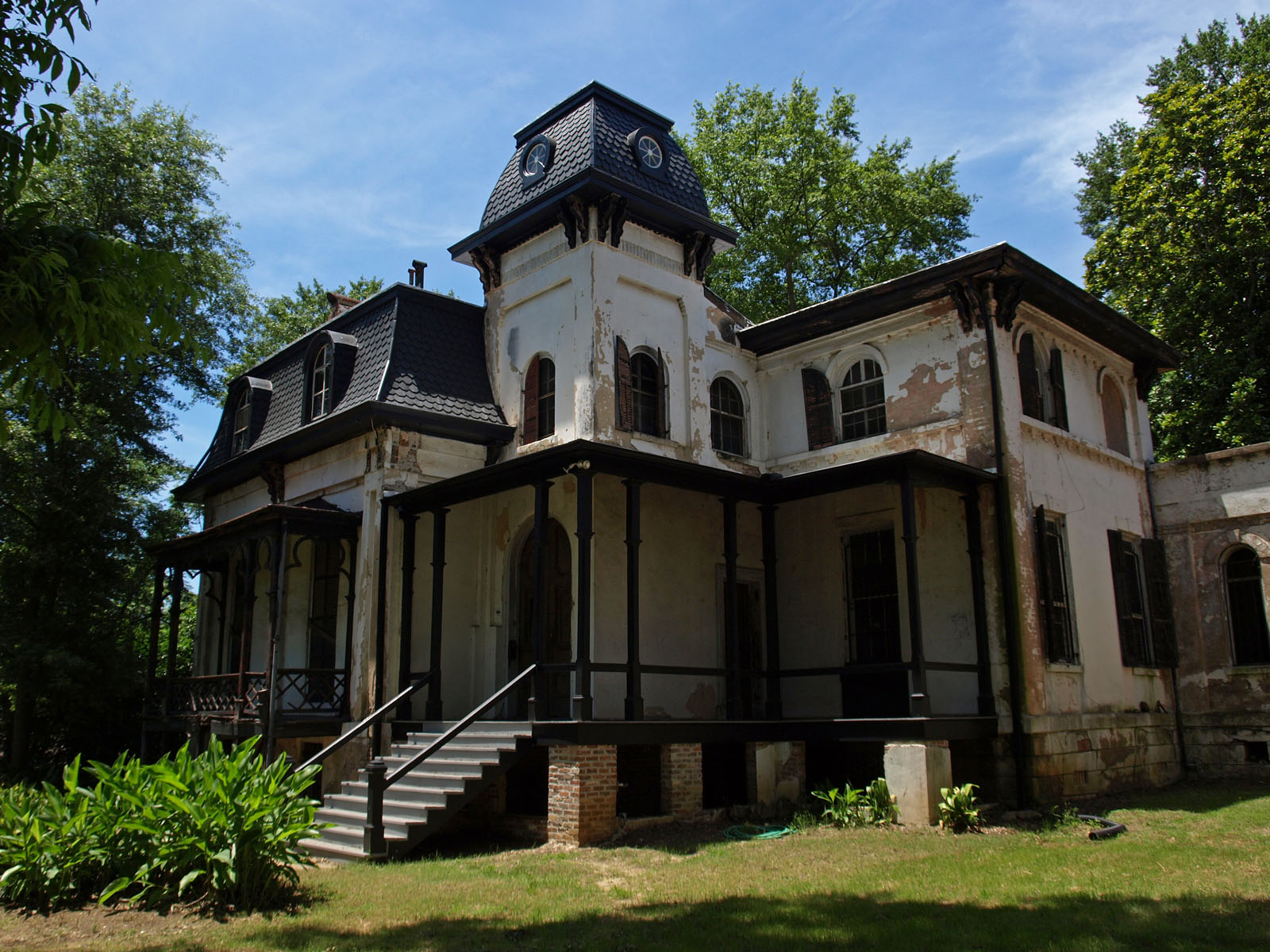 Front (east) side of the main house at Winter Place in Montgomery, Alabama